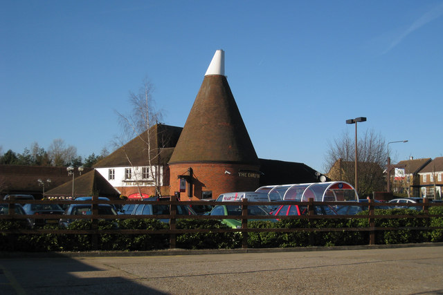 The Early Bird Public House, Grove Wood Drive, Grove Green, Kent The pub was built in 1989 by brewers Shepherd Neame of Faversham. The nearest part of the building built in the style of an oast house, however an oast roundel would not have been as large as this.